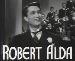 Cropped screenshot of Robert Alda from the trailer for the film Rhapsody in Blue.